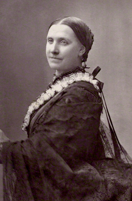 Sarah Jane Woolgar - Mrs. Alfred Mellon 1824-1909, English Actess.